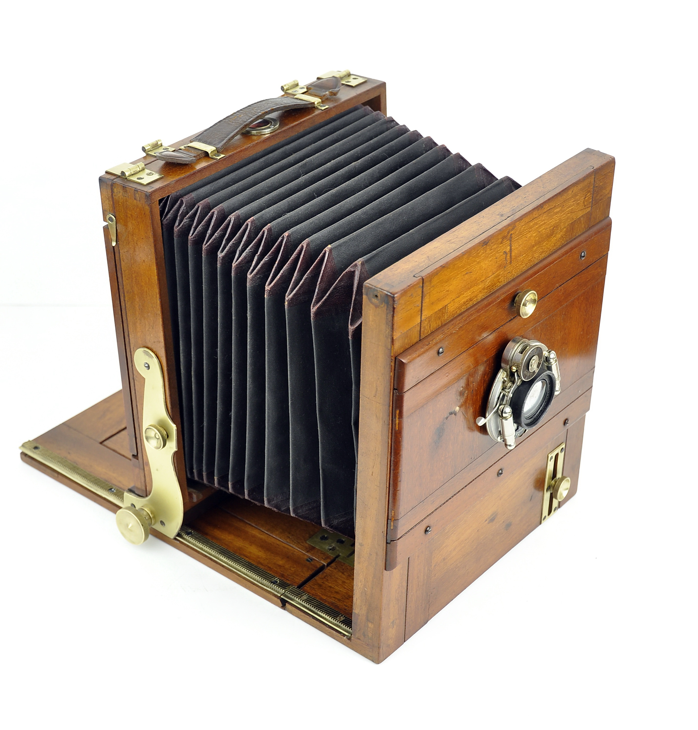 Folding camera Union. Now it is part of collection in Museum of Science and Technology Belgrade.